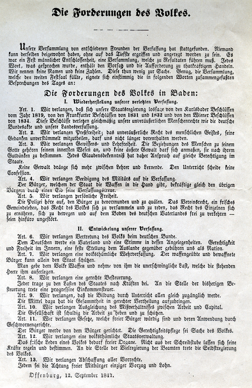 Demands of the People as result of a revolutionary meeting in Offenburg on 12 September 1847